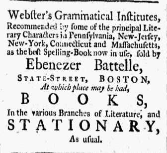 Newspaper item related to Ebenezer Battelle